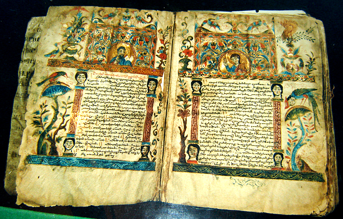 Manuscript of Gladzor University, 13-14th century, village Vernashen, Vayots Dzor, Armenia, 09